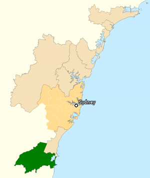 Incorporates or developed using Administrative Boundaries ©PSMA Australia Limited licensed by the Commonwealth of Australia under Creative Commons Attribution 4.0 International licence (CC BY 4.0). Derived from State and Territory Boundaries from the Australian Bureau of Statistics under Creative Commons Attribution 2.5 Australia license (CC BY 2.5 AU)